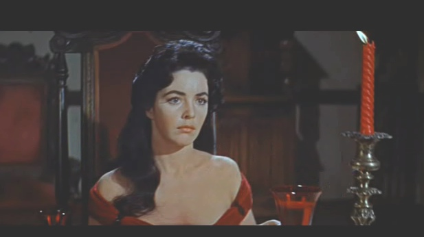 Free screenshot from Public Domain Trailer of movie: House of Usher (1960)